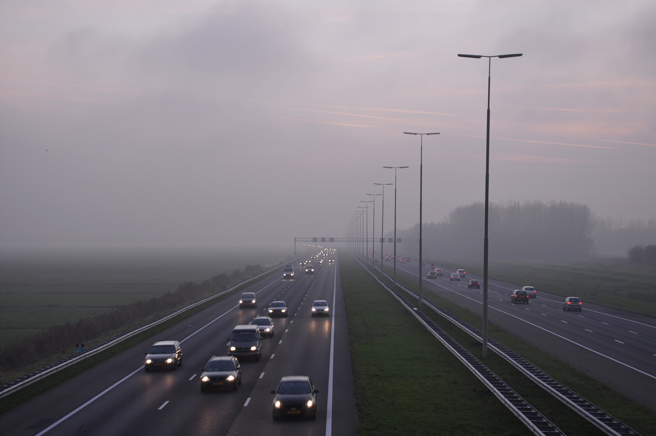 Motorway A4 from The Hague to Amsterdam cuts through the entire length of the Starrevaart Polder between Leidschendam and Stompwijk (Province of South-Holland, Netherlands).